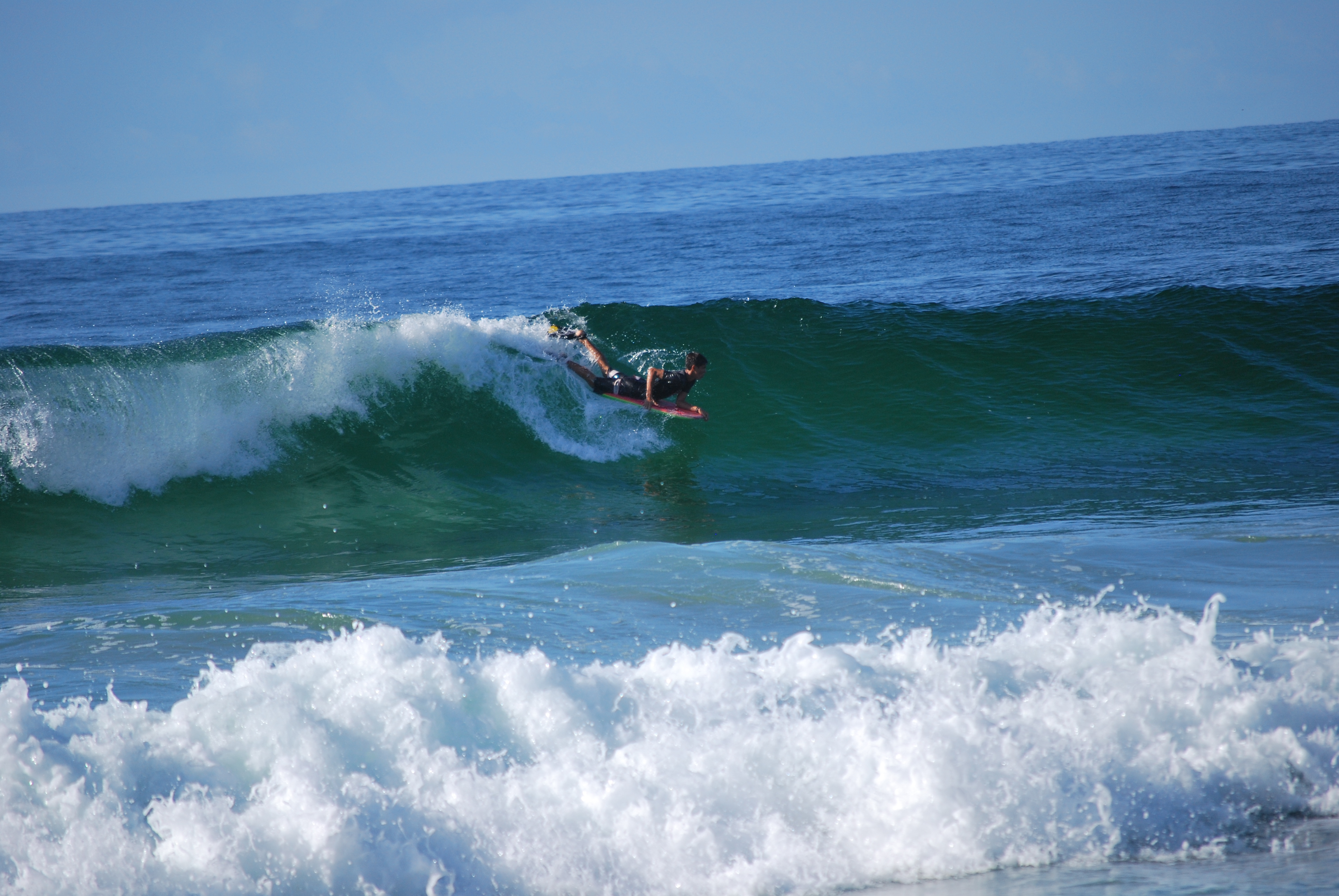 Surfer on a wave just off Zipolite Beach, Oaxaca, Mexico